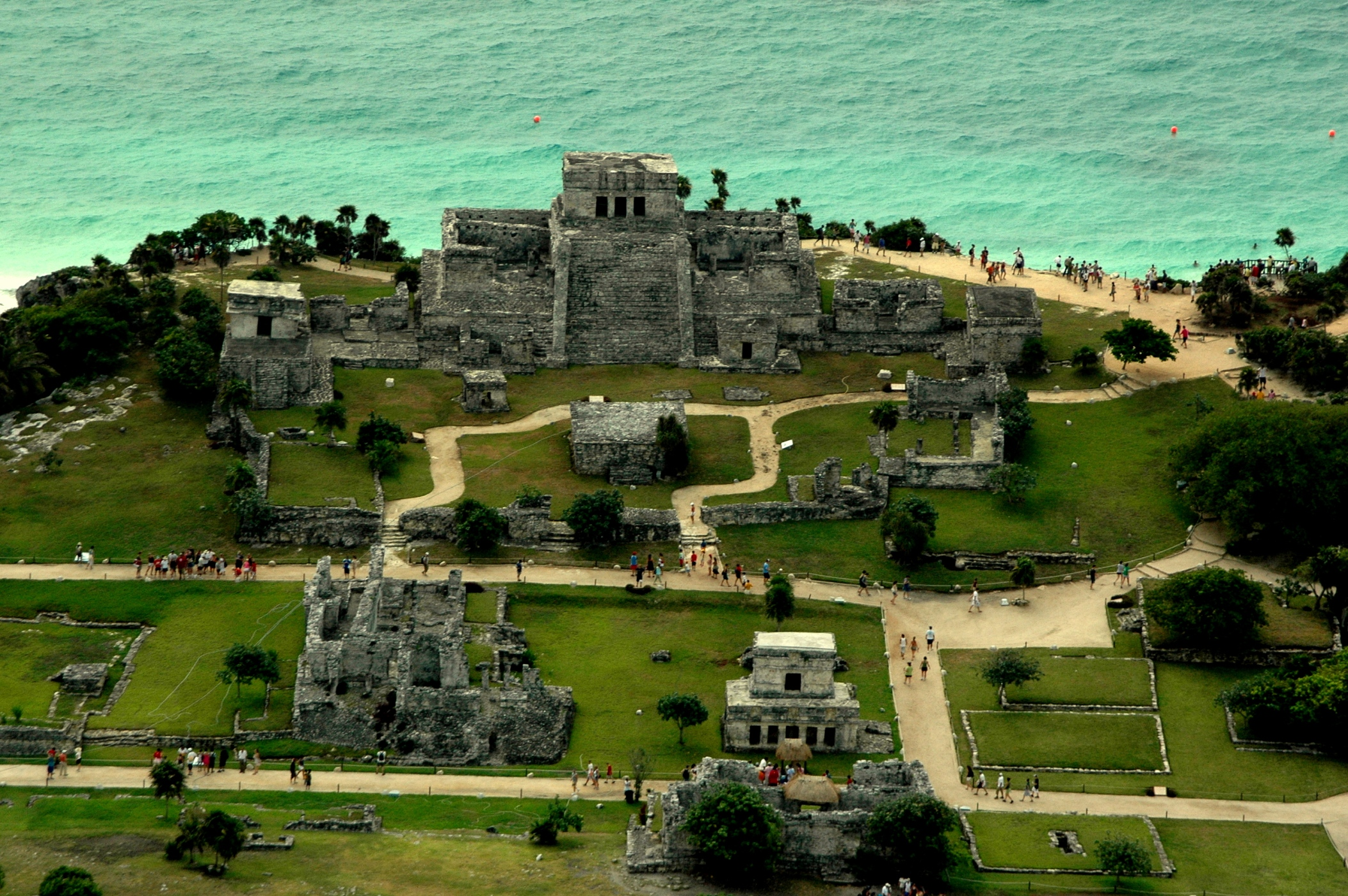 Panoramic bird's-eye view of the greatest Mayan harbour: Tulum and the turquoise Mexican Caribbean waters.